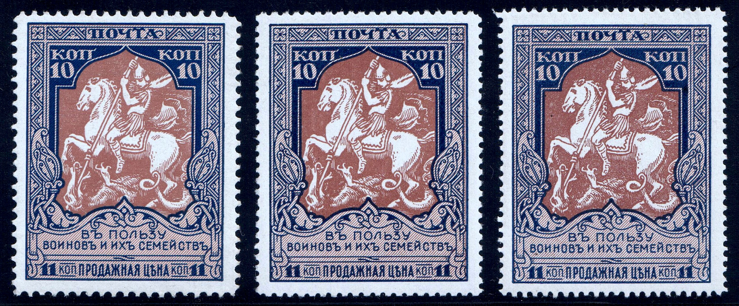 Russia 1915. Perforated 11.5, 12.5 and 13.5.